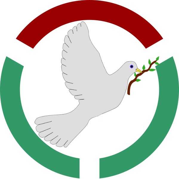 A logo for Mediation Cabal